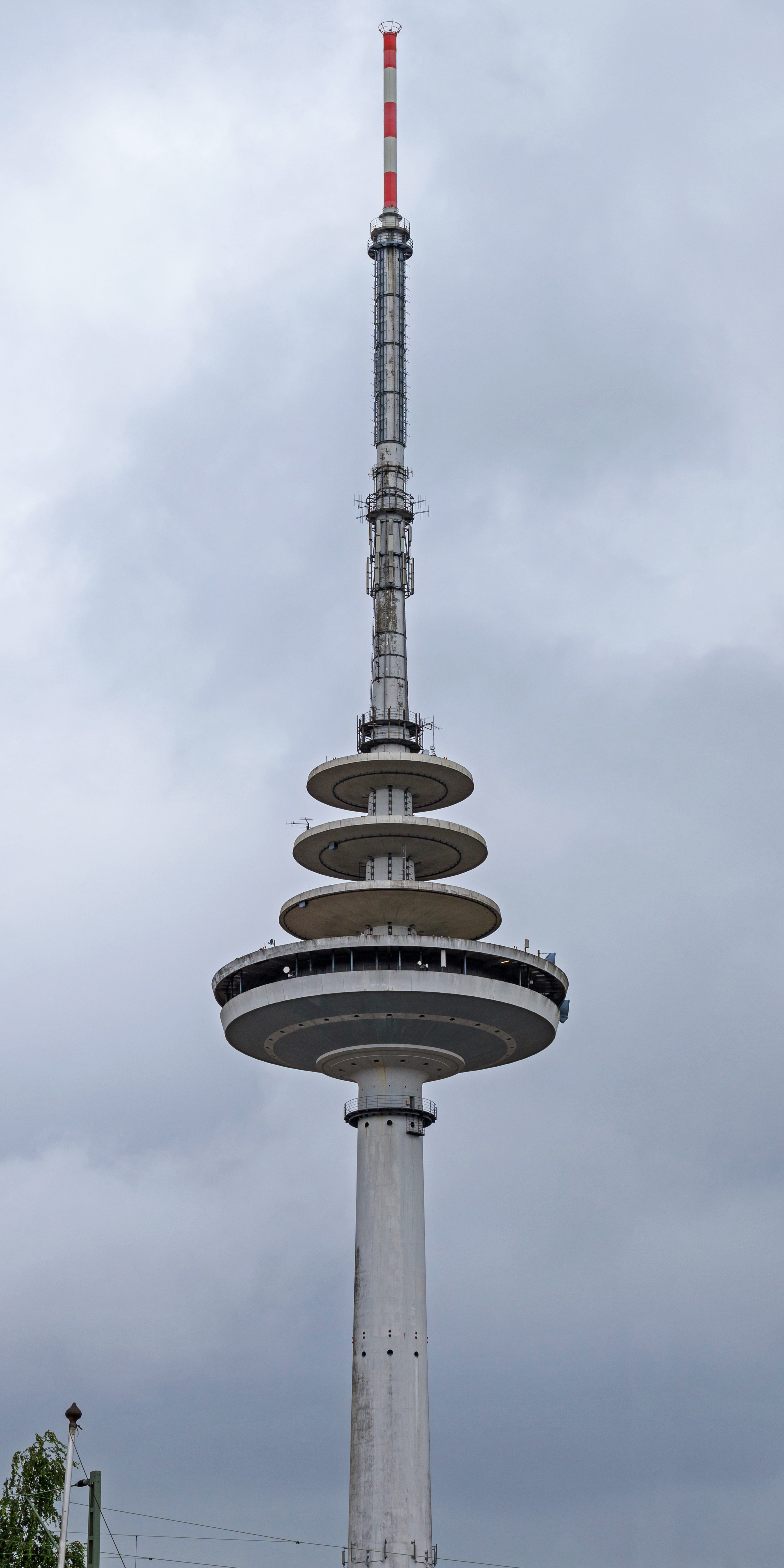 The TV Tower in Bremen, Germany